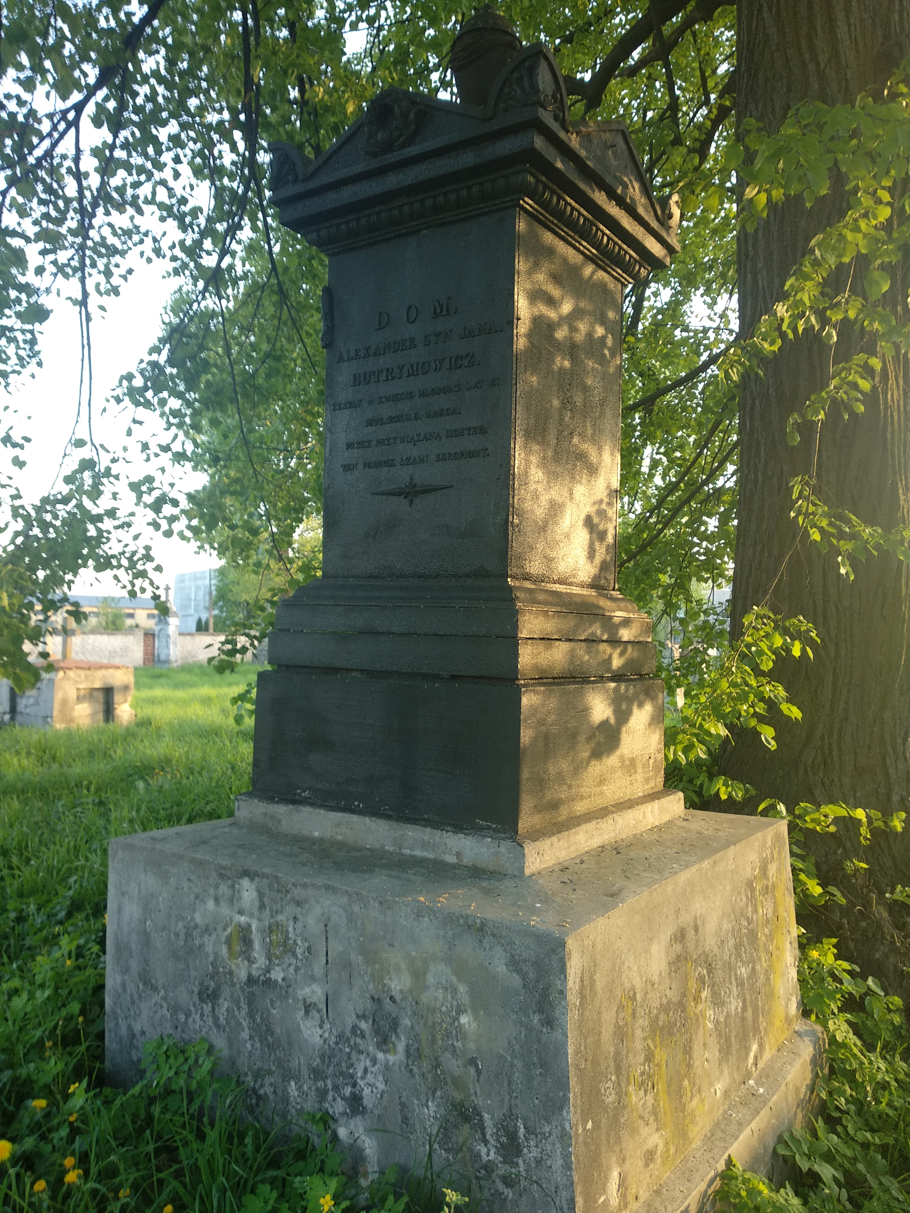 tomb at Roman-Catholic cemetry in Pinsk, Belarus